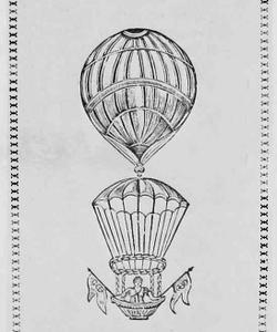 Image from the announcement of the parachute jump by Élisa Garnerin in Madrid